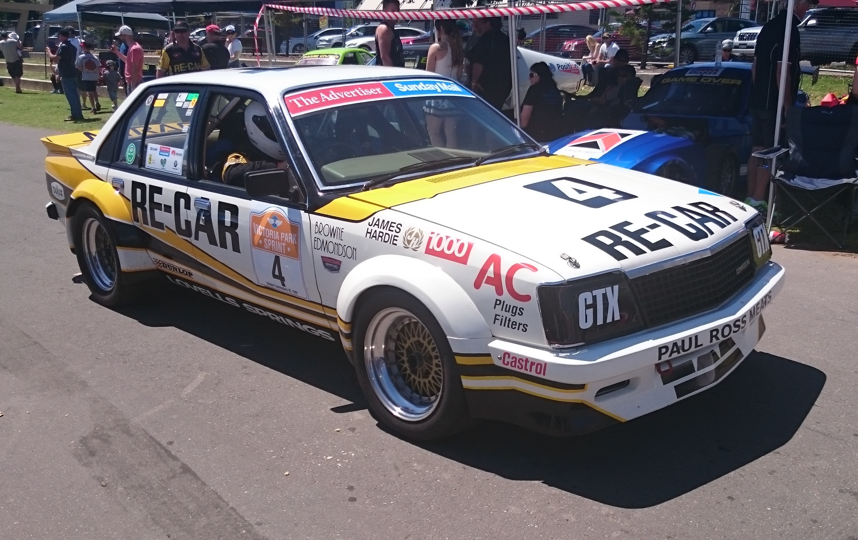 Alan Browne and Tony Edmondson palced fifth in the 1981 James Hardie 1000 driving a Holden Commodore (VC). The above image is from the 2015 Adelaide Motorsport Festival.